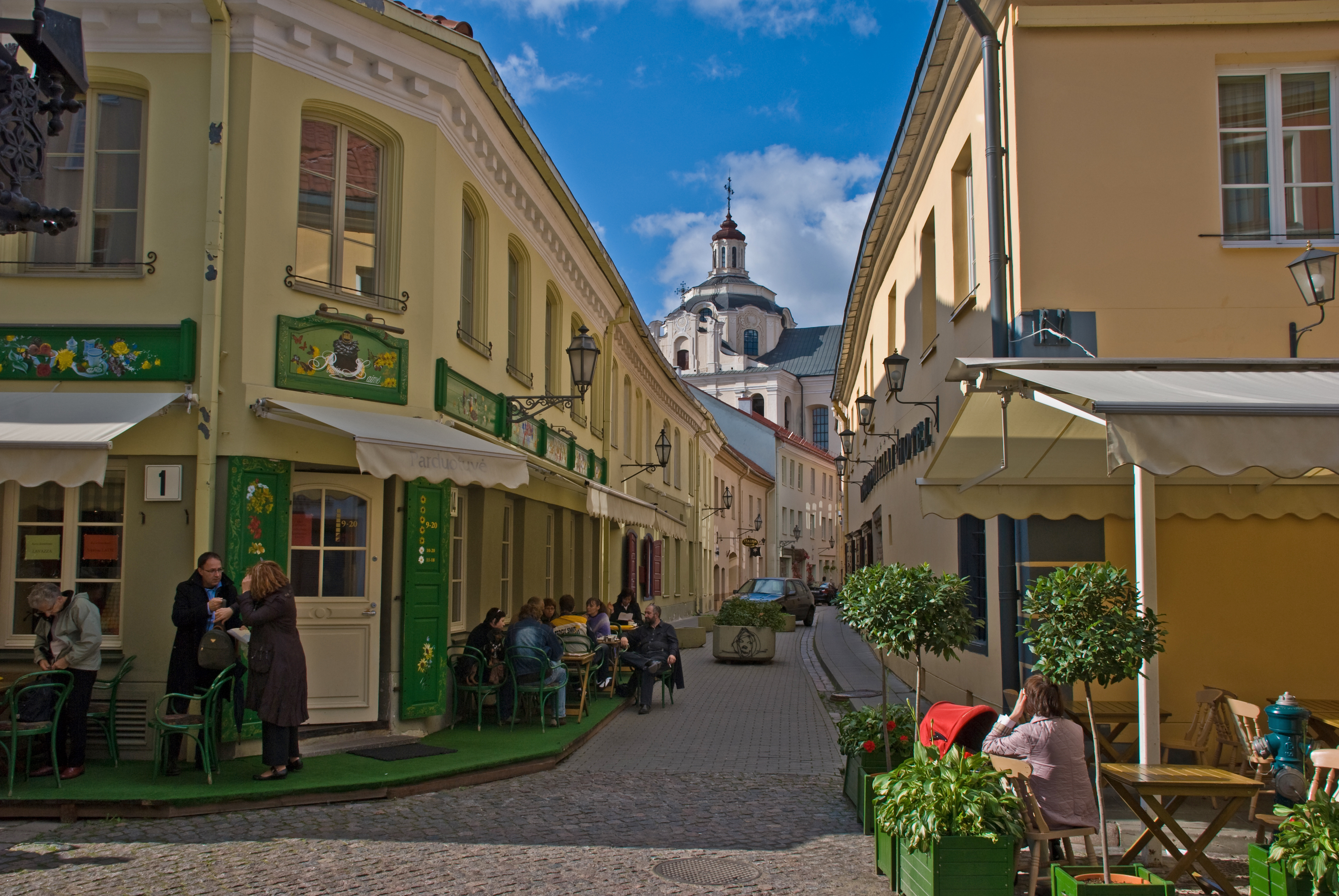 Vilnius' old town